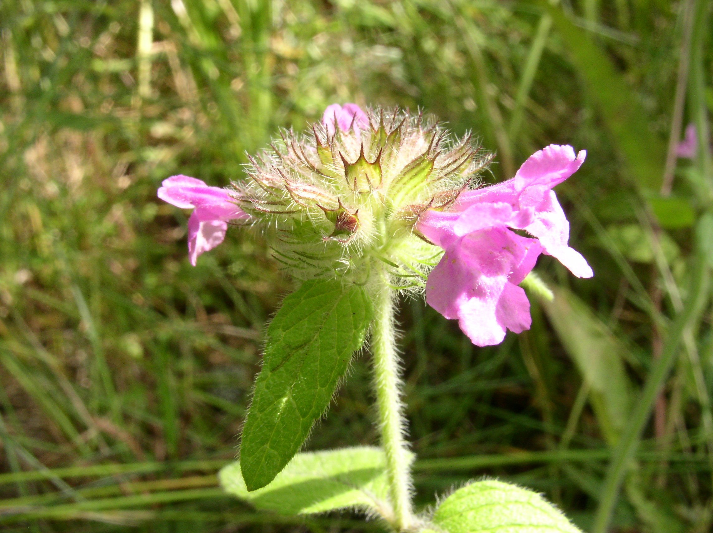 Clinopodium vulgare inflorescence in Savonlinna, Finland.